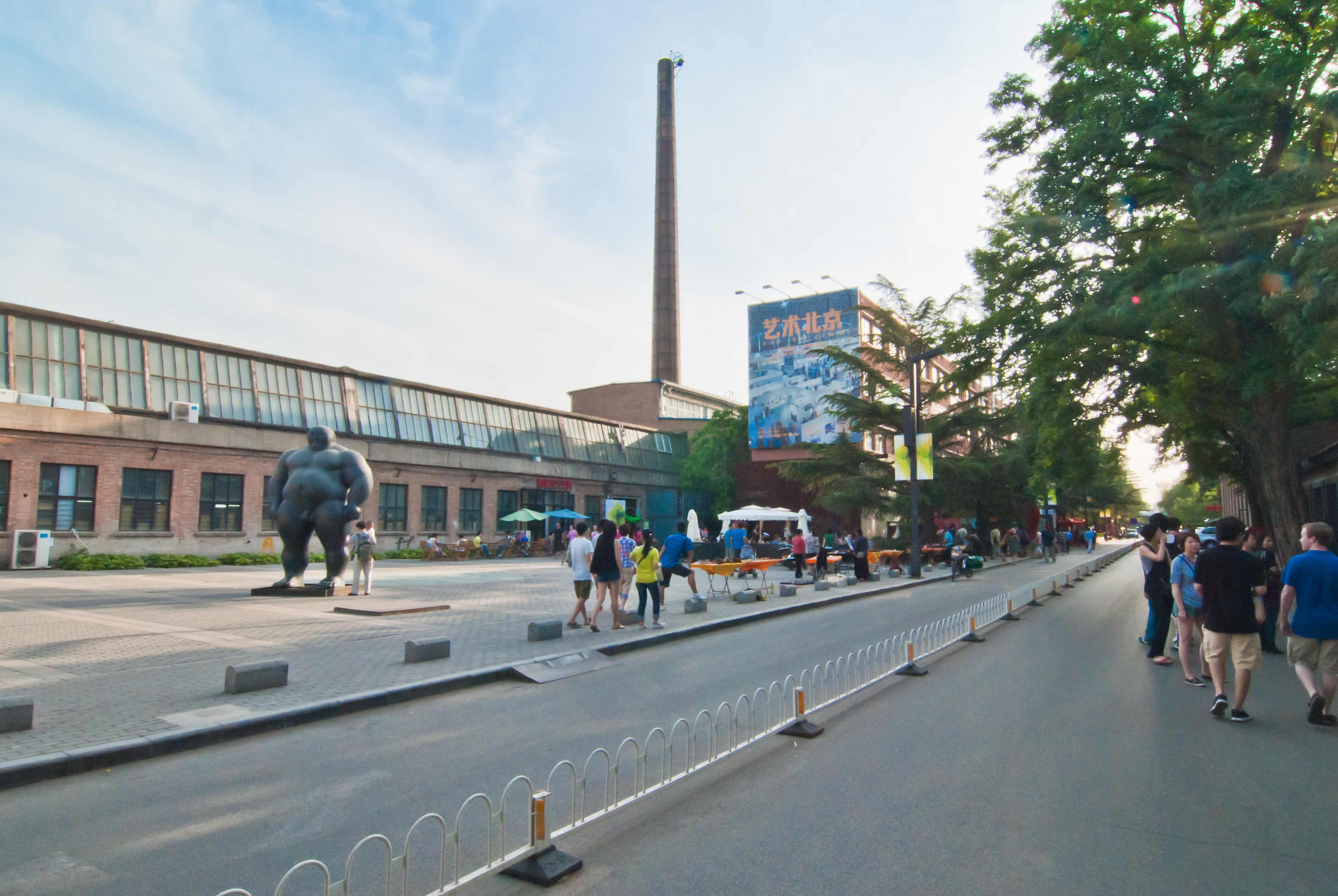 798 Art Zone